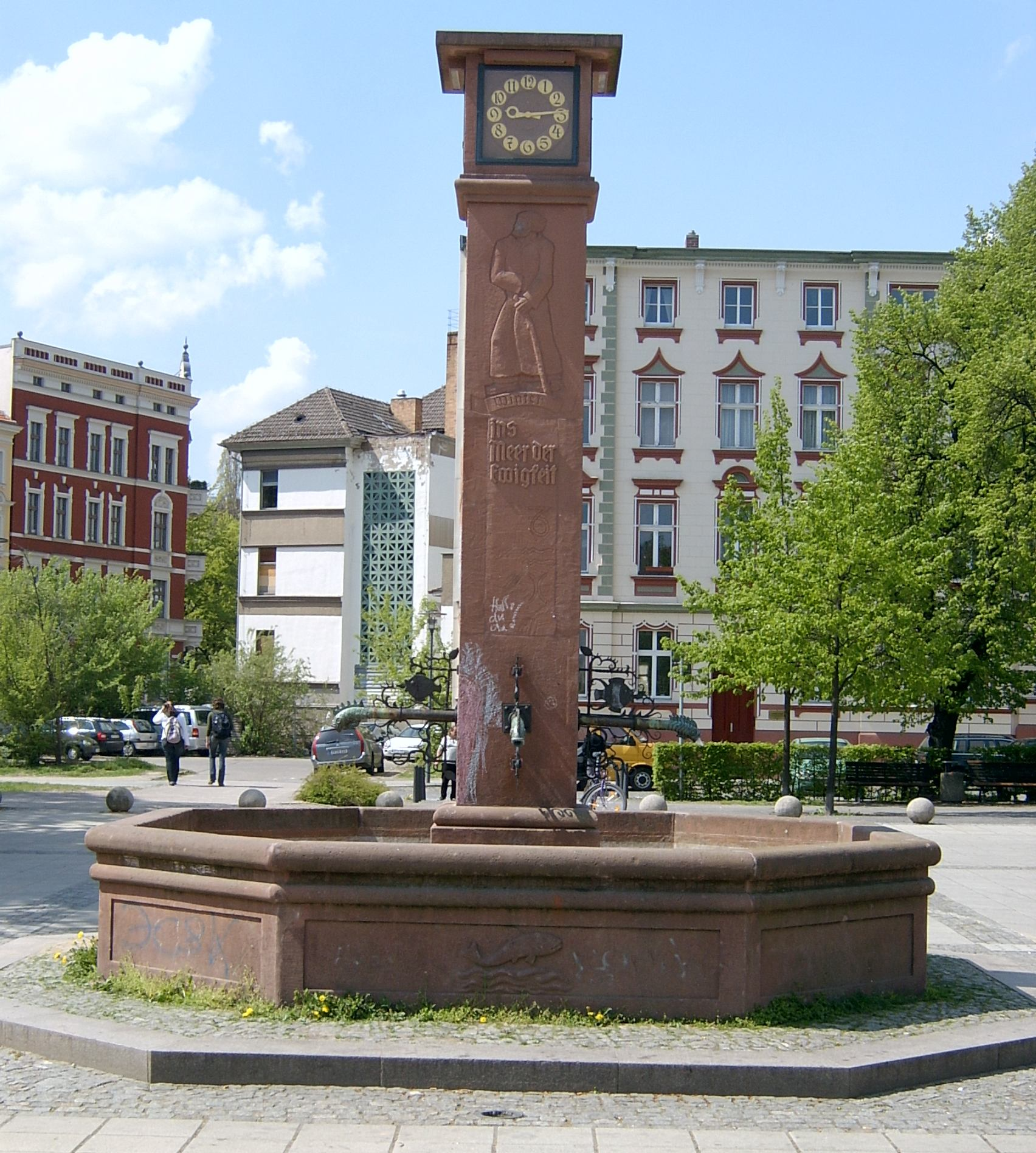 Clock and seasons fountain on square Leiziger Platz in Frankfurt (Oder), Brandenburg, Germany